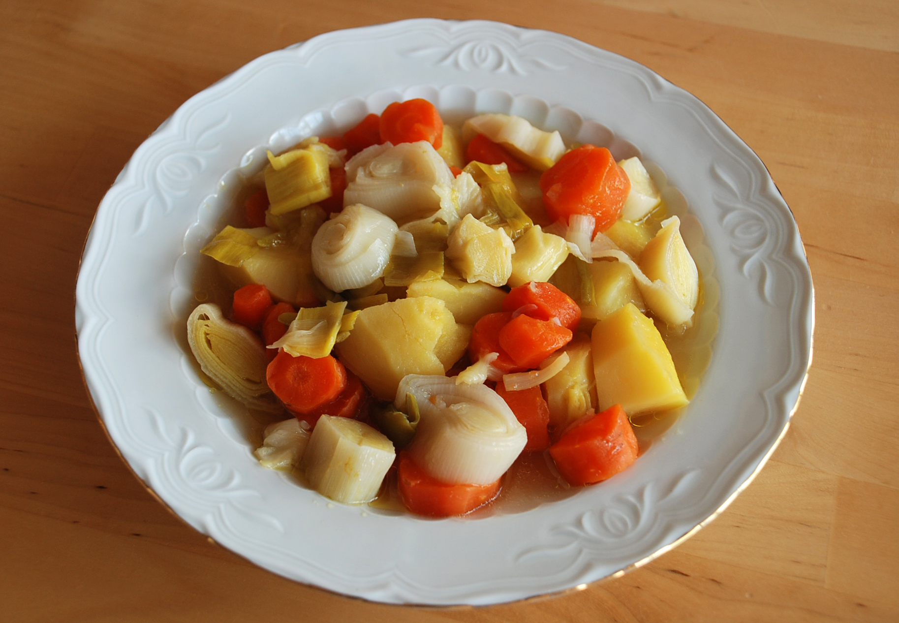 Porrusalda or purrusalda.Typical basque stew of leek, potato and carrot. Some variants include the least noble parts of cod salted as tail fins and jaws.